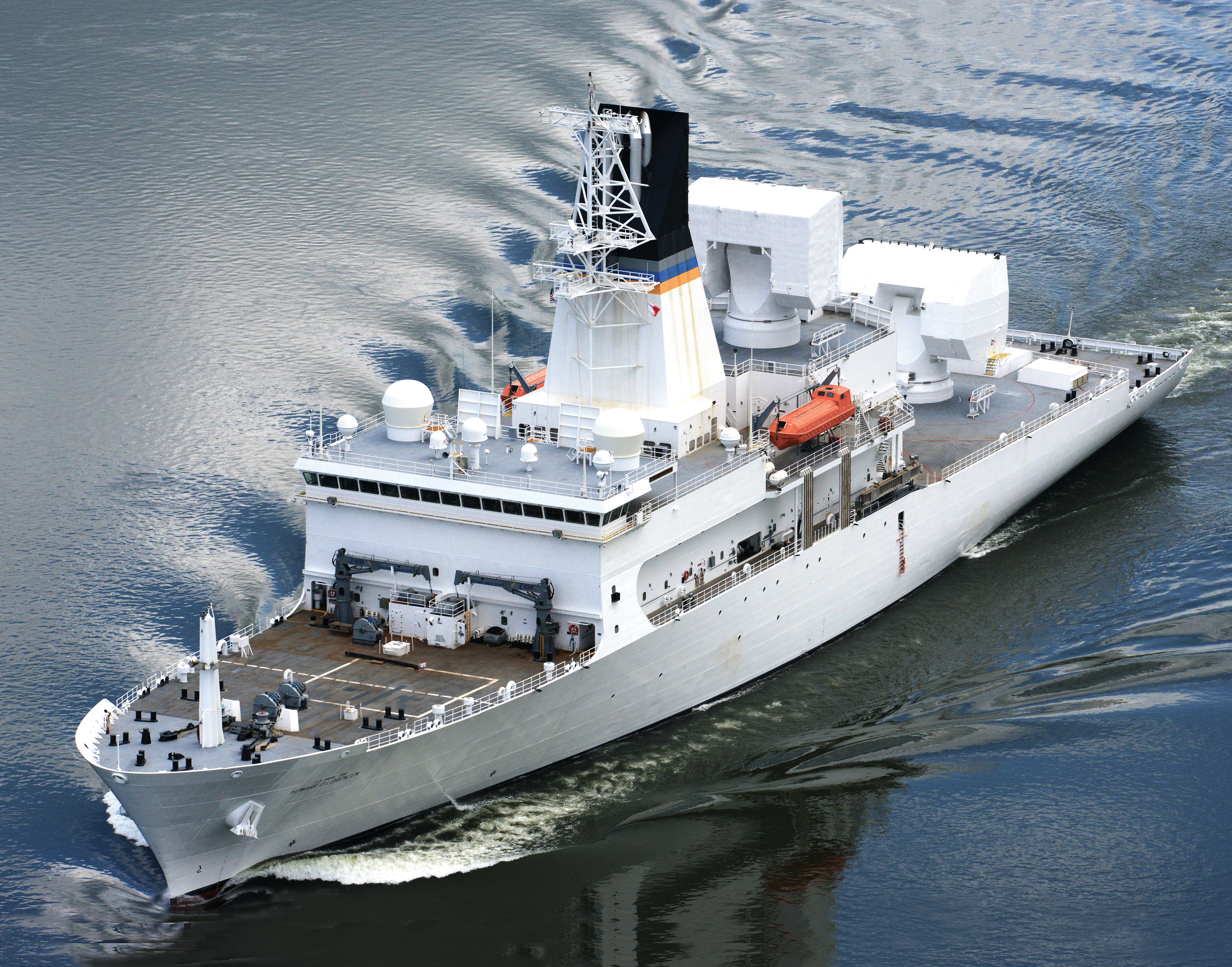 USNS Howard O. Lorenzen (T-AGM-25) travels toward the Pacific Ocean on the Columbia River. USNS Howard O. Lorenzen is a 534-foot-long missile range instrumentation ship operated by MSC to conduct missions sponsored by the U.S. Air Force.